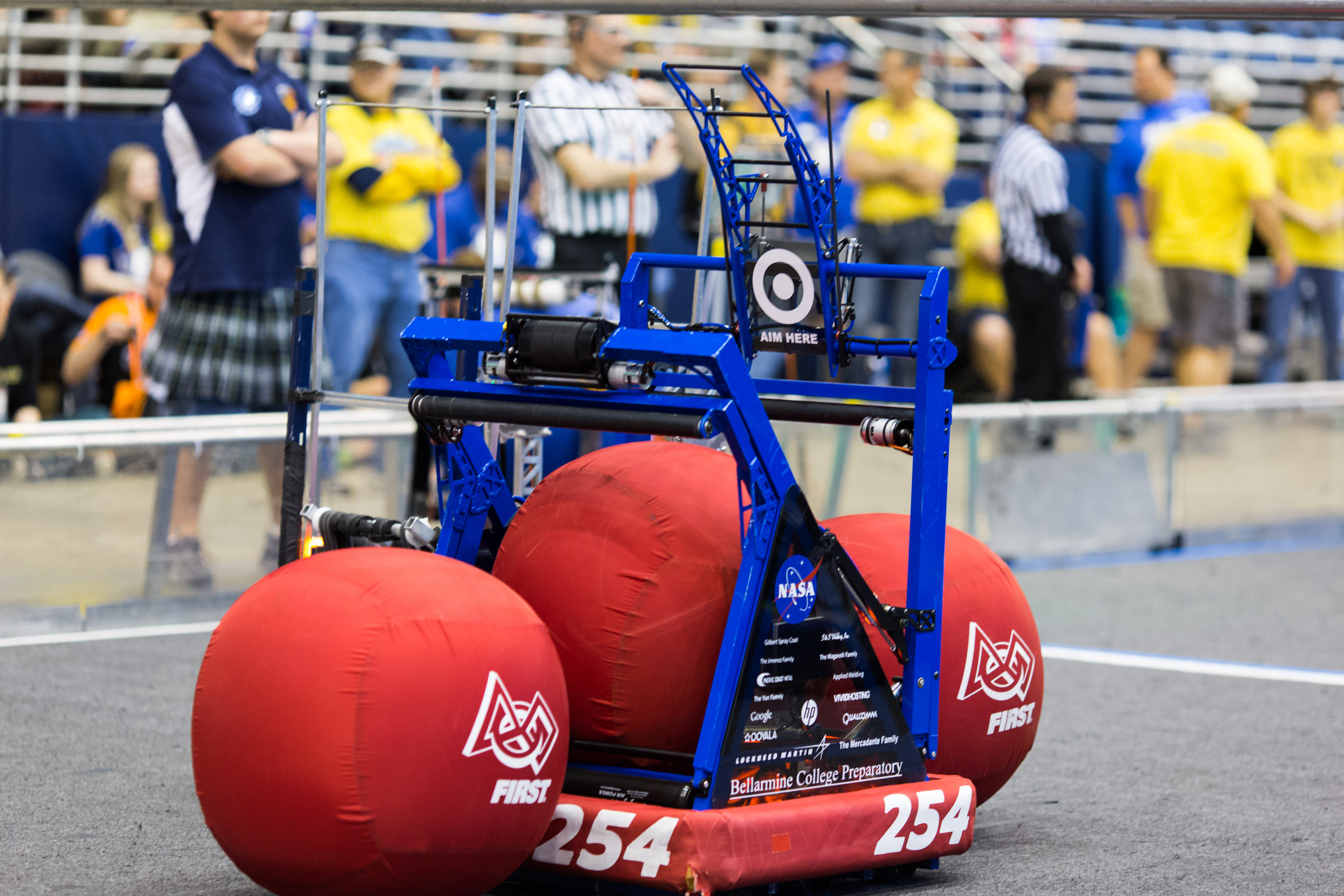 Cheesy Poofs' (Team 254) Aerial Assist robot that won the World Championships